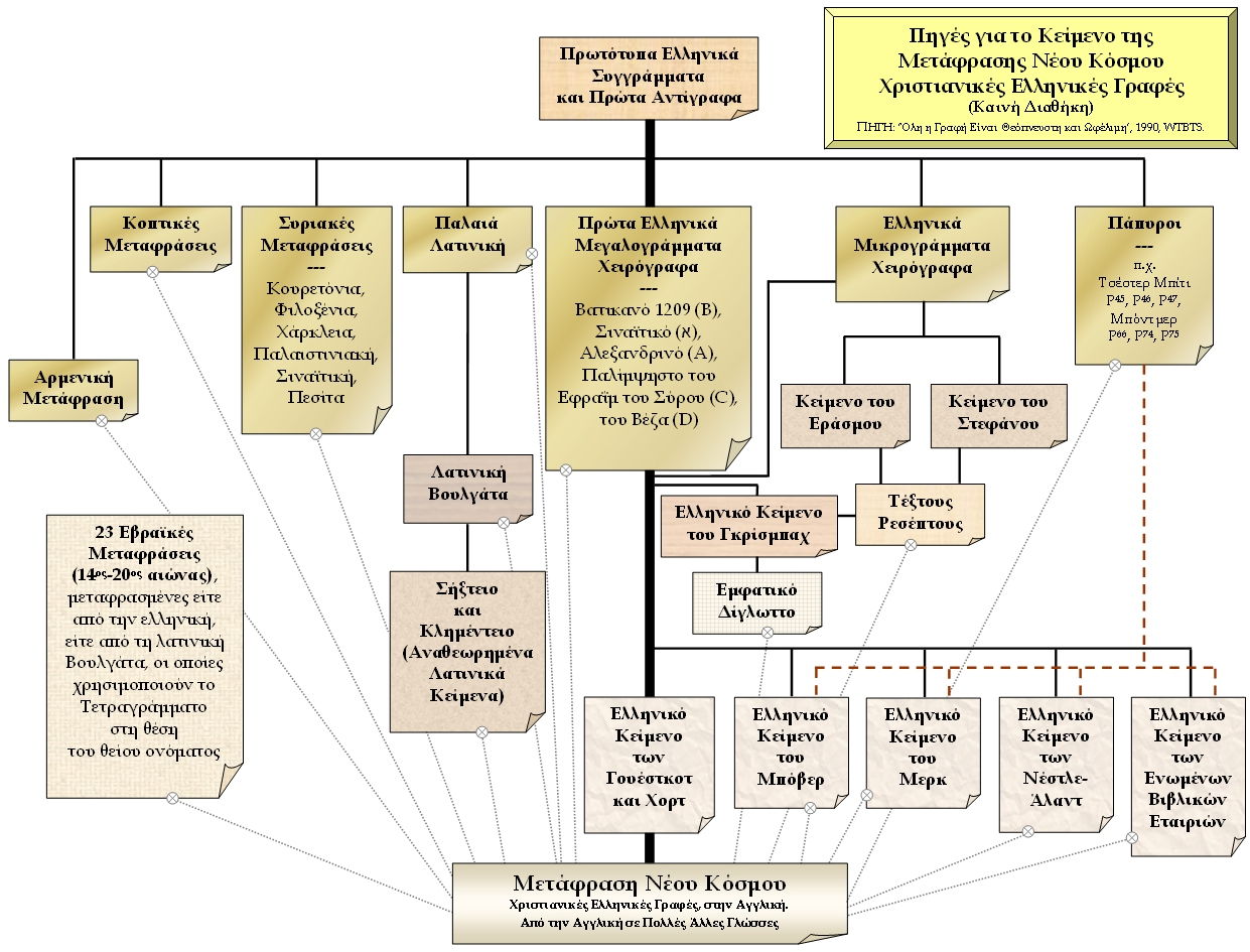 Sources for the New World Translation of the Holy Scriptures